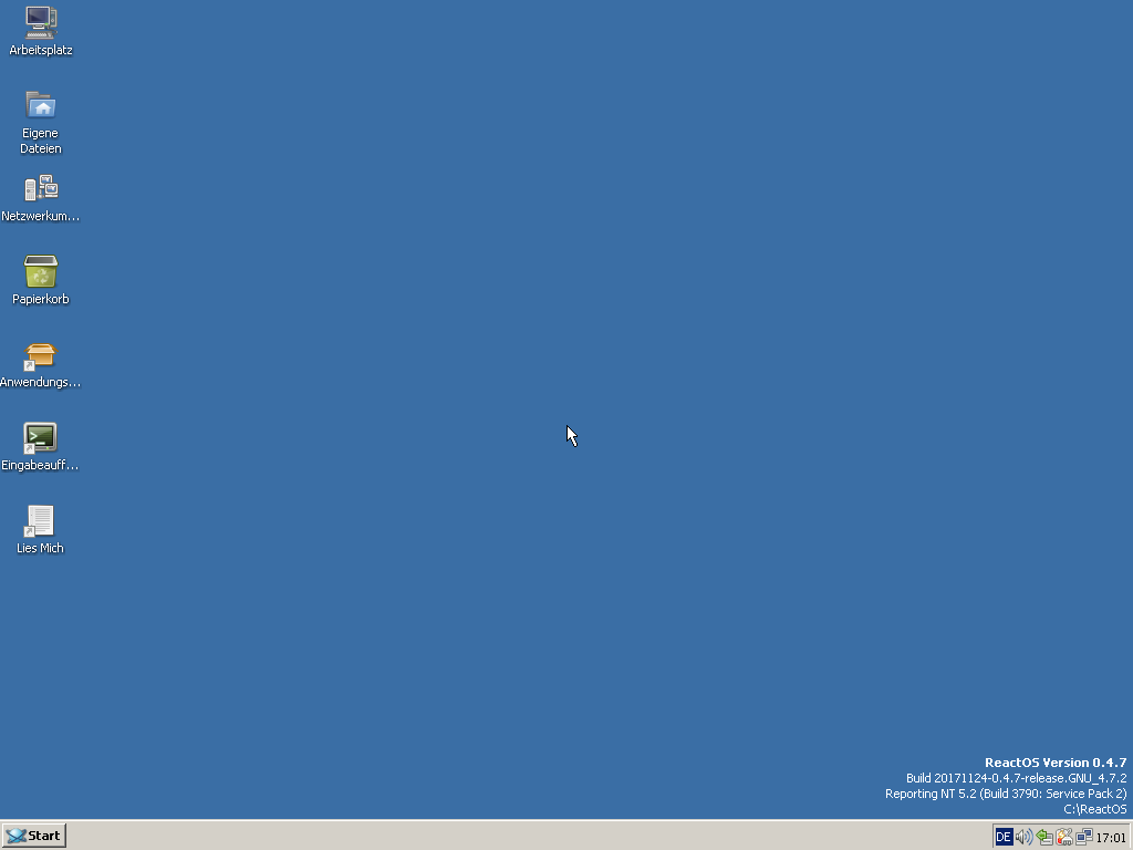 Screenshot of the ReactOS 0.4.7 desktop